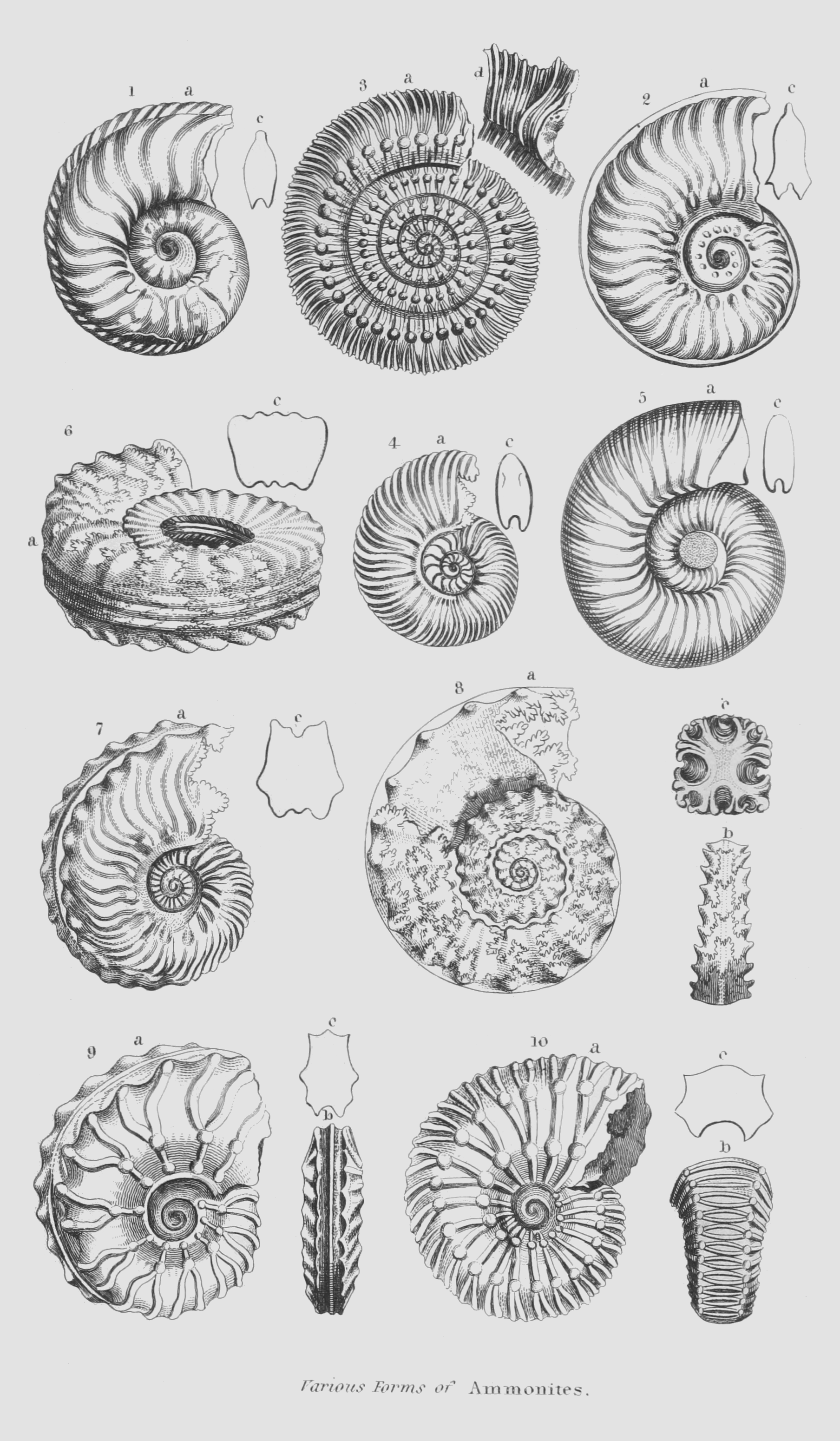 Geology and Mineralogy considered with reference to Natural Theology, 1837. Vol. 2.